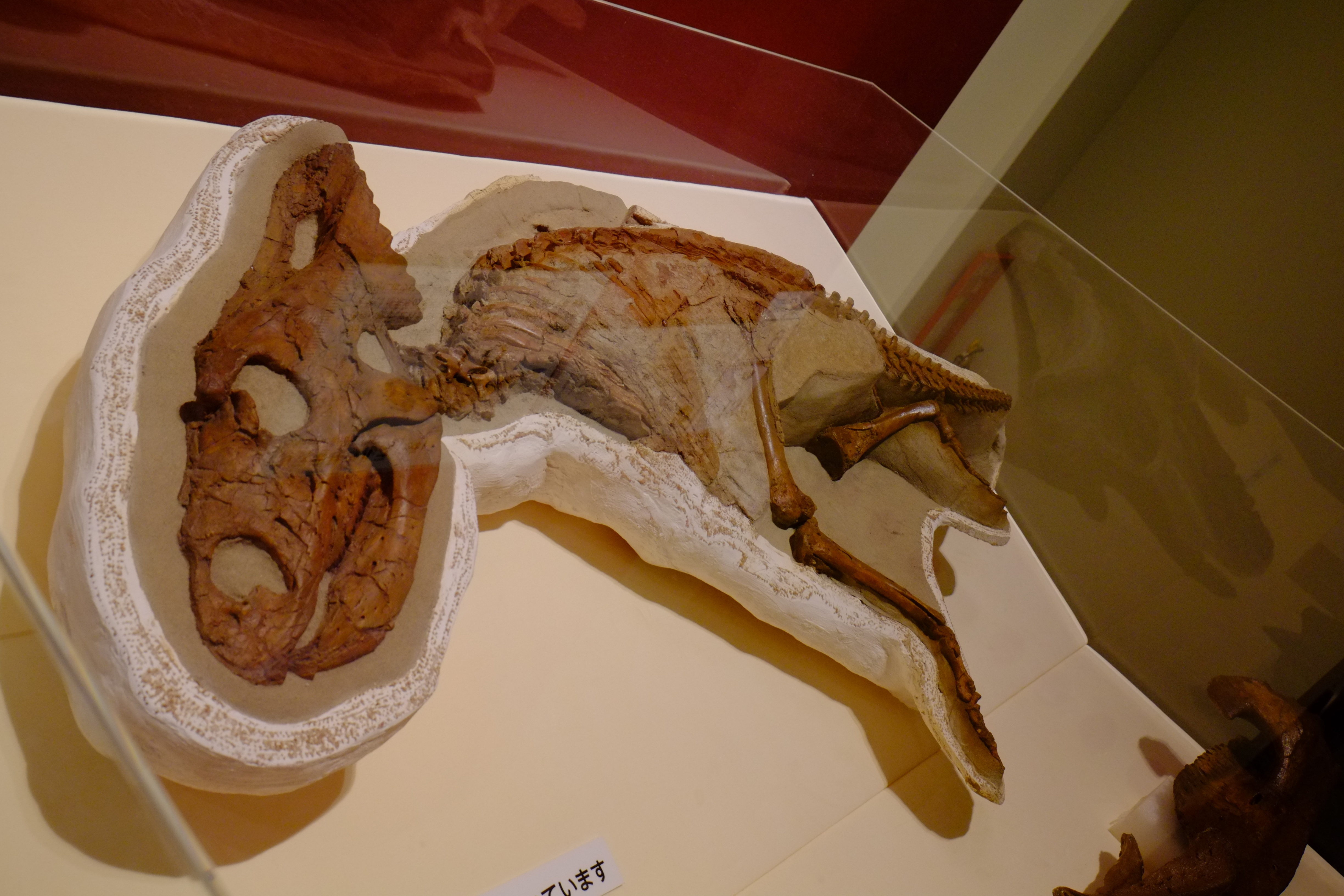 幼体かすも